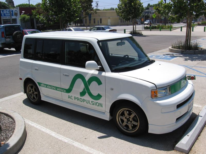 A front view photo of the eBox electric vehicle by AC Propulsion